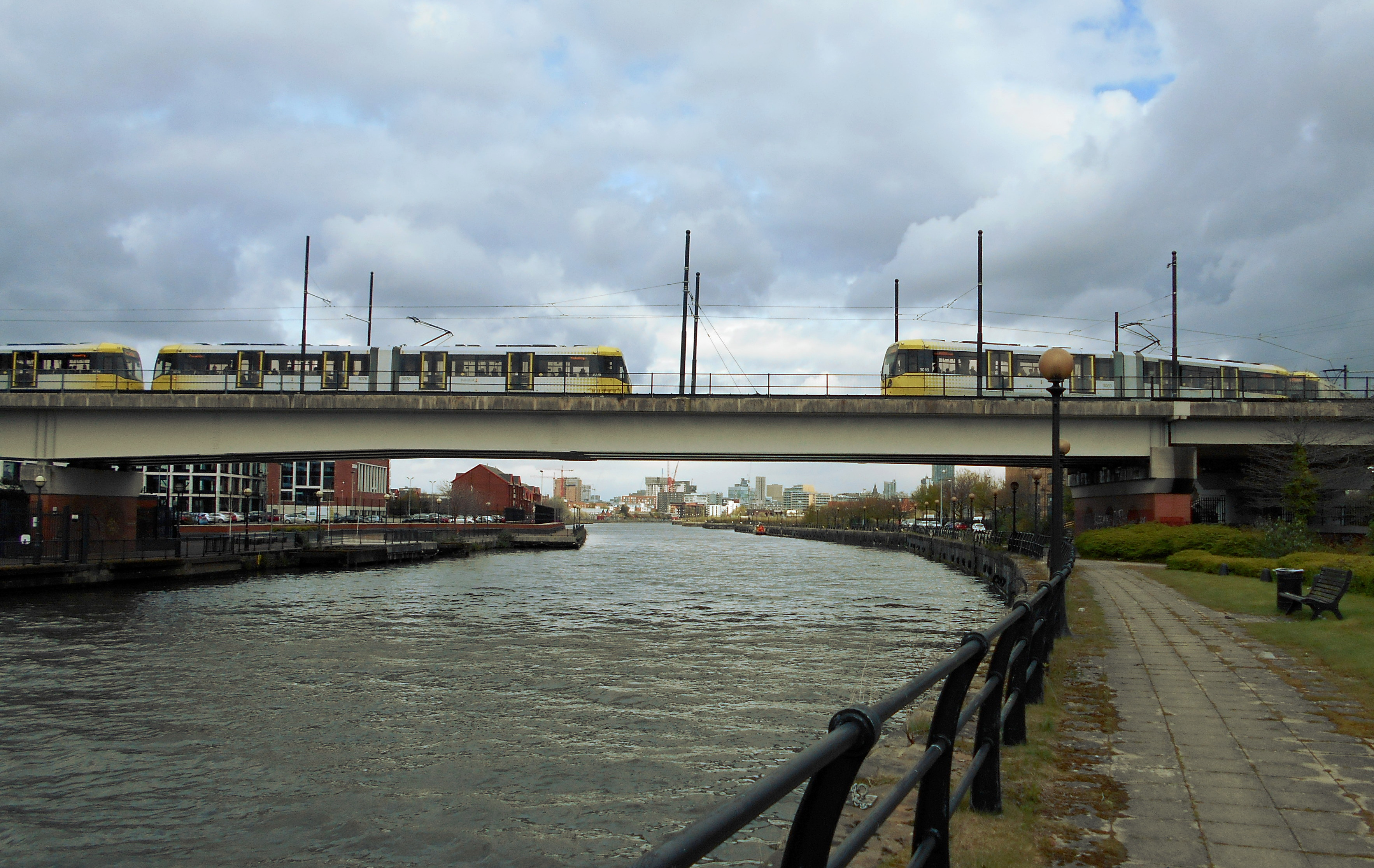 Two M5000 trams passing over the Manchester Ship canal on the Pomona tram viaduct.